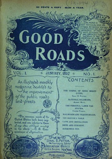 Cover art for first issue of "Good Roads" magazine (Vol 1, No 1, Jan 1892)